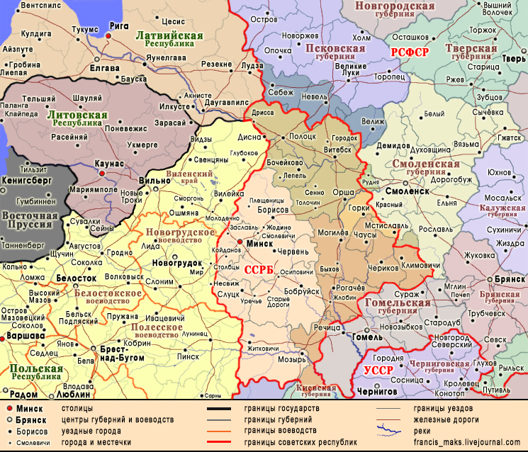 Map showing the territory of Belarus after its change in 1924 Беларуская (тарашкевіца): Першае ўзбуйненьне БССР (1924)